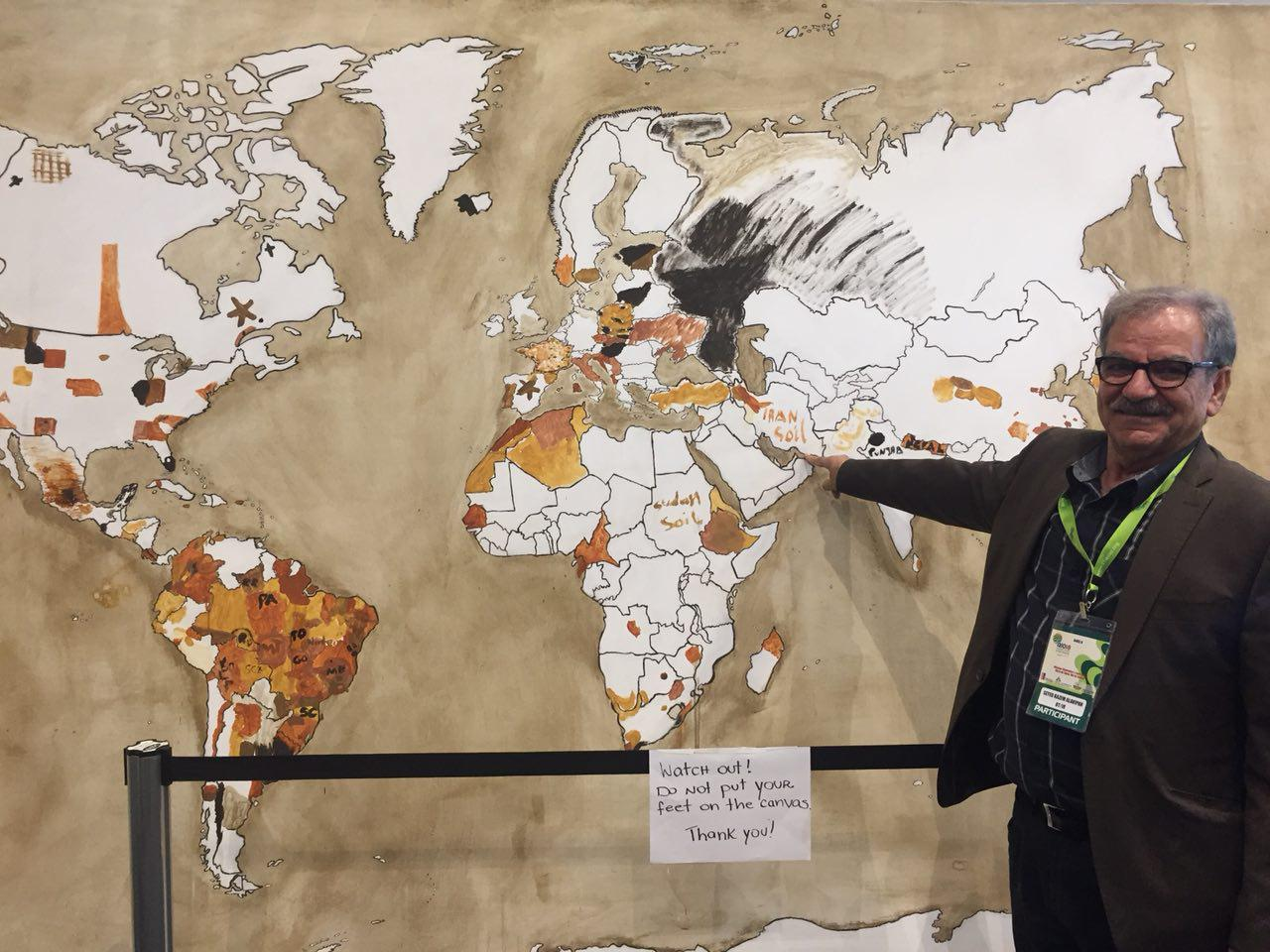 Seyed Kazem Alavipanah